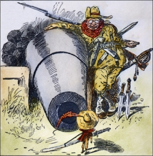 Political Caricature: 'Go Away, Little Man, and Don't Bother Me'